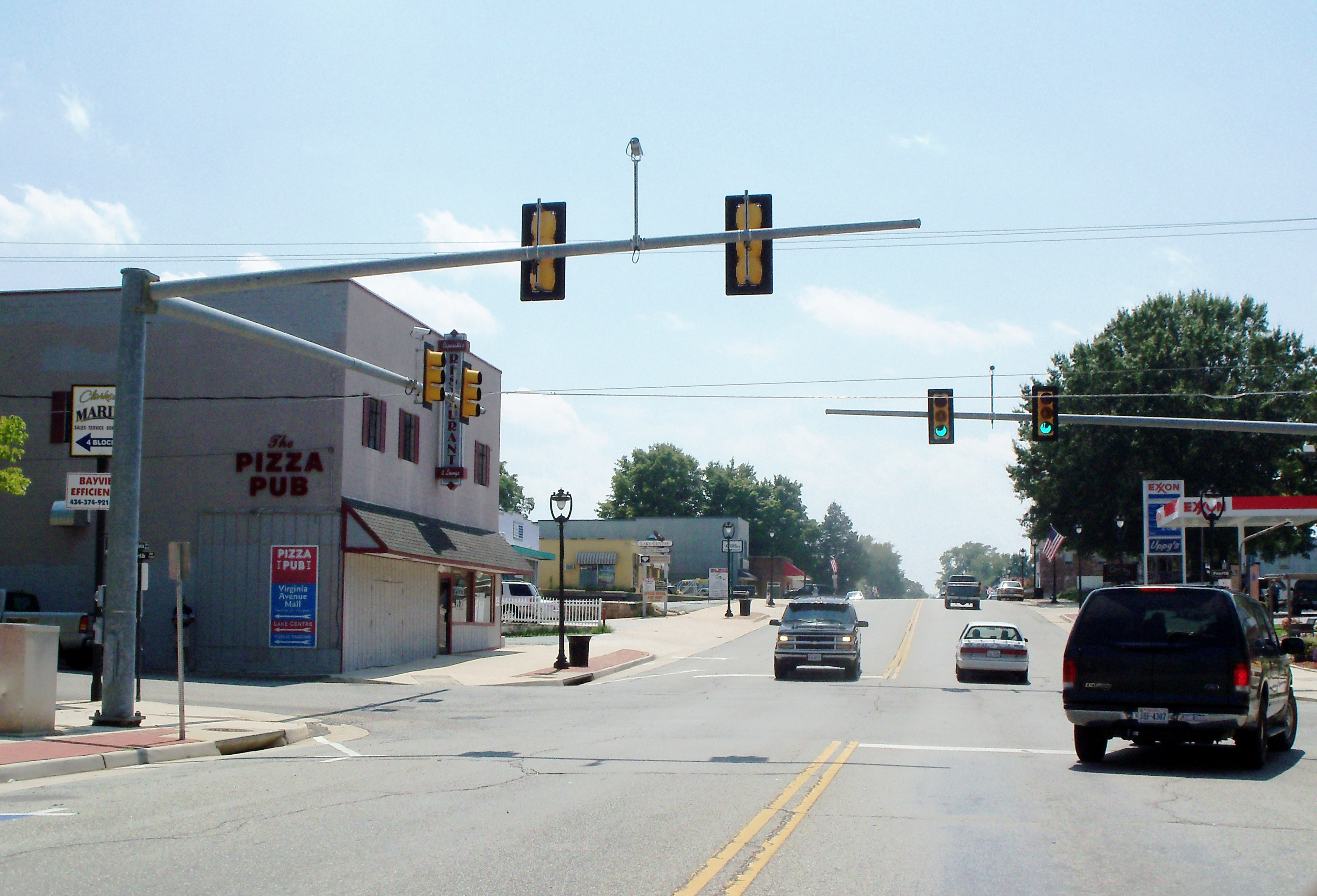 4th St and Virginia Ave